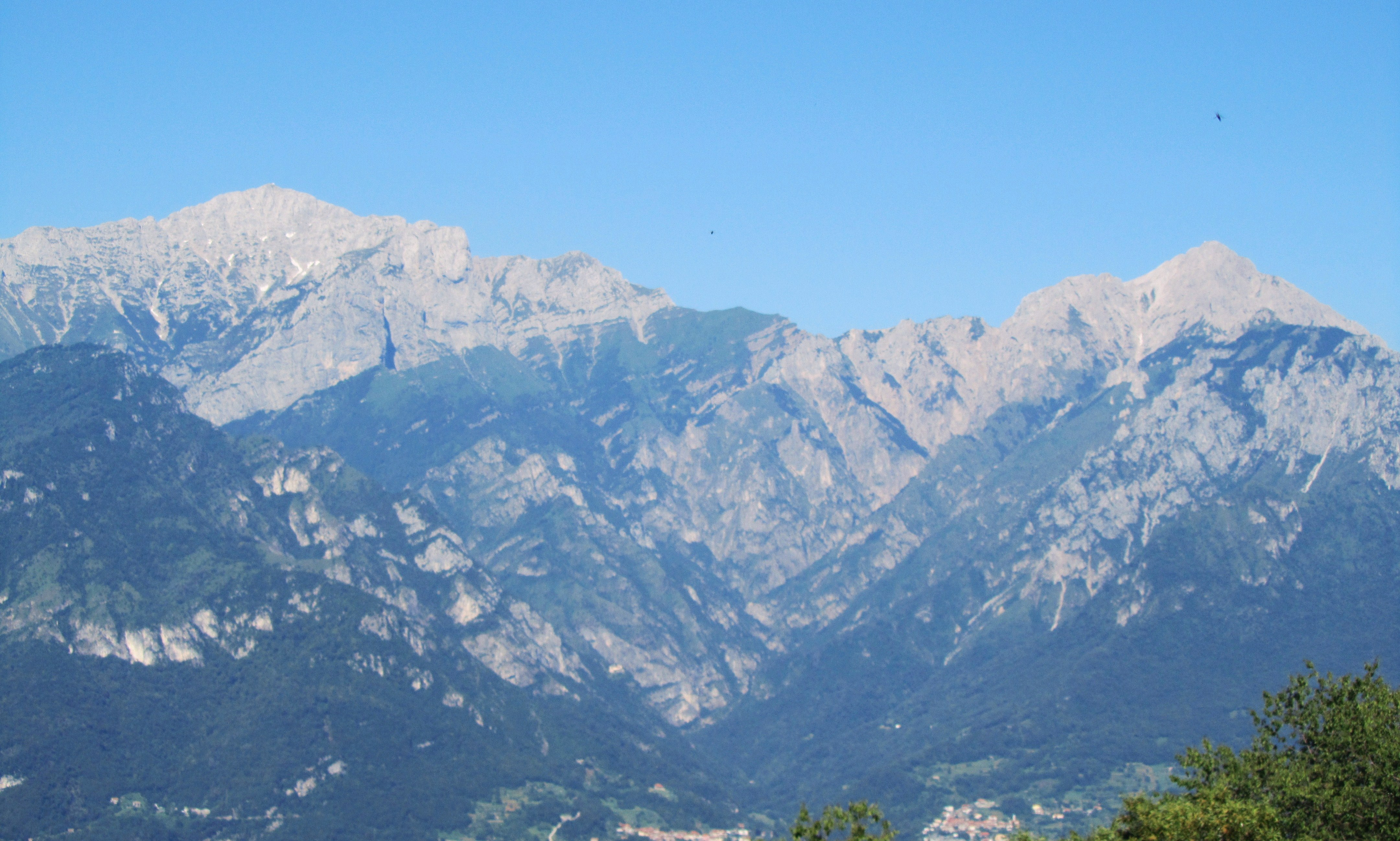 Grigna Range, western side